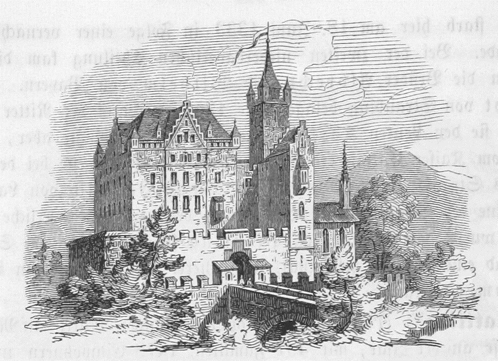 Image extracted from page 256 of above. Original held and digitised by the British Library. Note: The colours, contrast and appearance of these illustrations are unlikely to be true to life. They are derived from scanned images that have been enhanced for machine interpretation and have been altered from their originals.